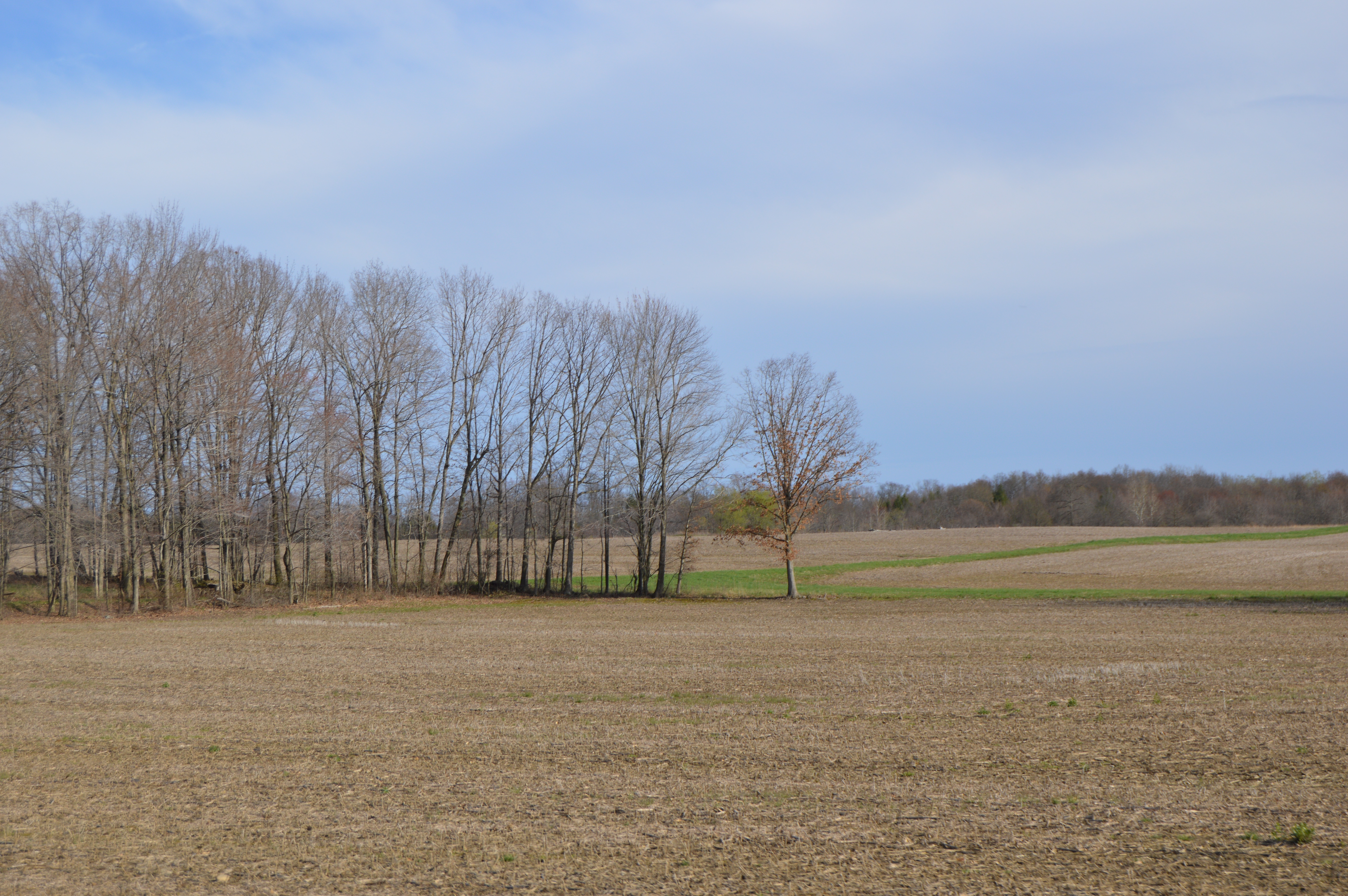 A stubble field along the southern side of Airport Road south of Grove City in Liberty Township, Mercer County, Pennsylvania, United States.